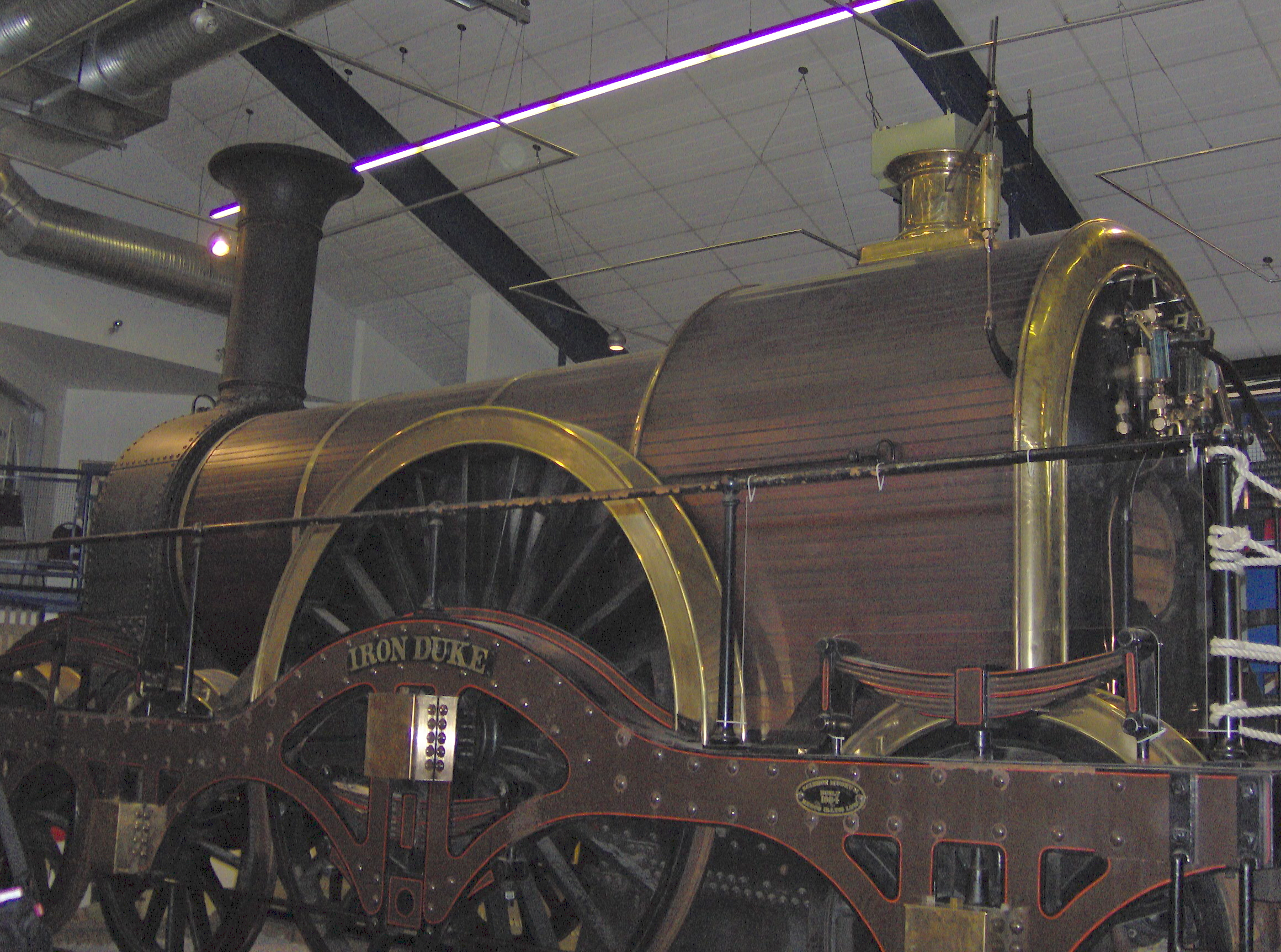 1985 replica of Iron Duke locomotive at the Maritime Heritage Centre alongside the Great Western Dockyard for the duration of the Brunel 200 celebrations.